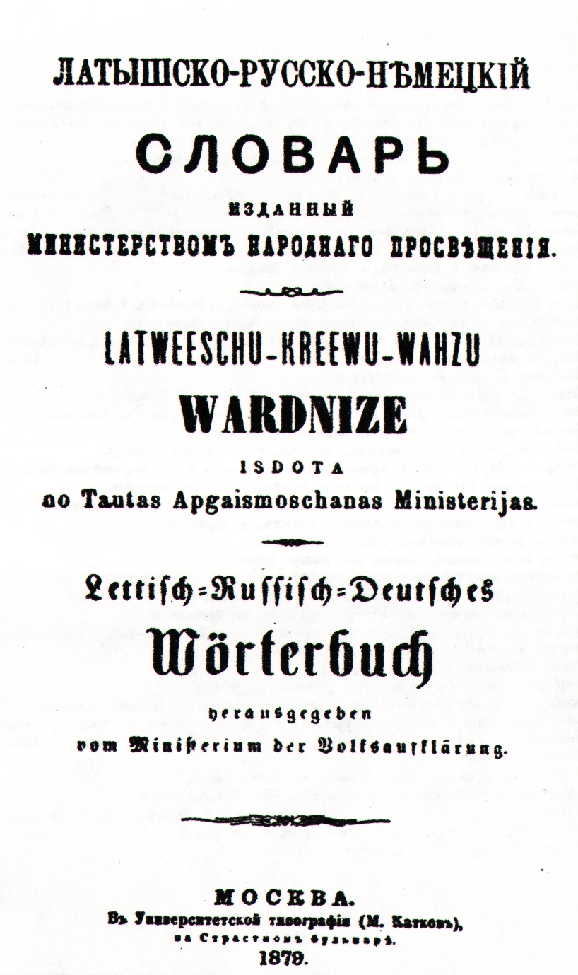 Krišjānis Valdemārs: Title page Latvian-Russian-German dictionary, 1879